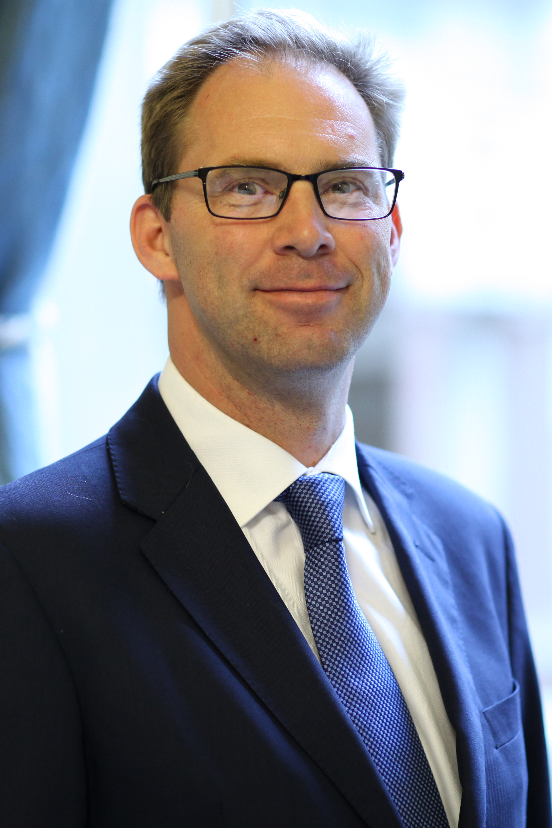 Tobias Ellwood MP was appointed Parliamentary Under Secretary of State at the Foreign & Commonwealth Office on 15 July 2014.